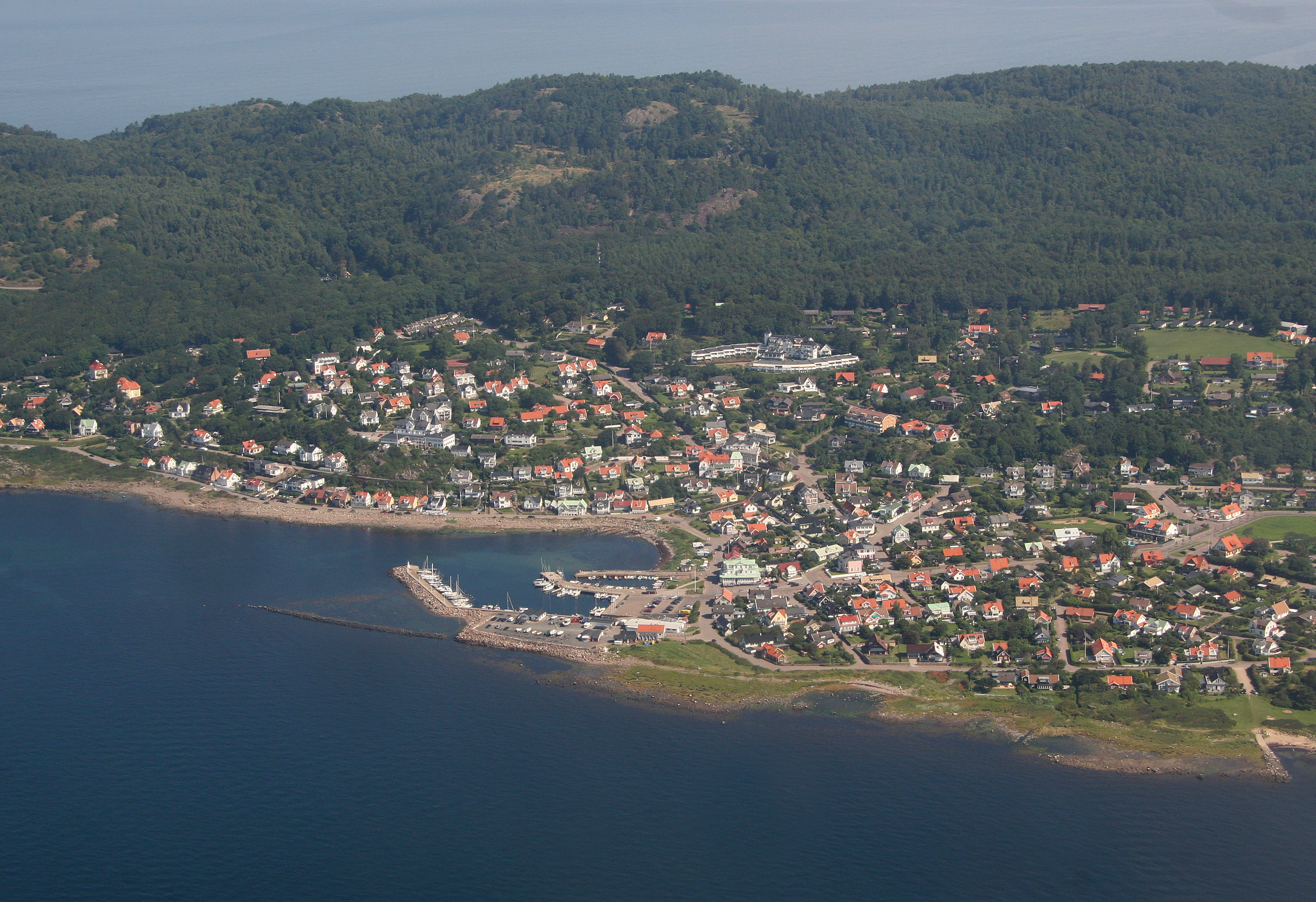 Mölle village in Höganäs Municipality, Sweden.